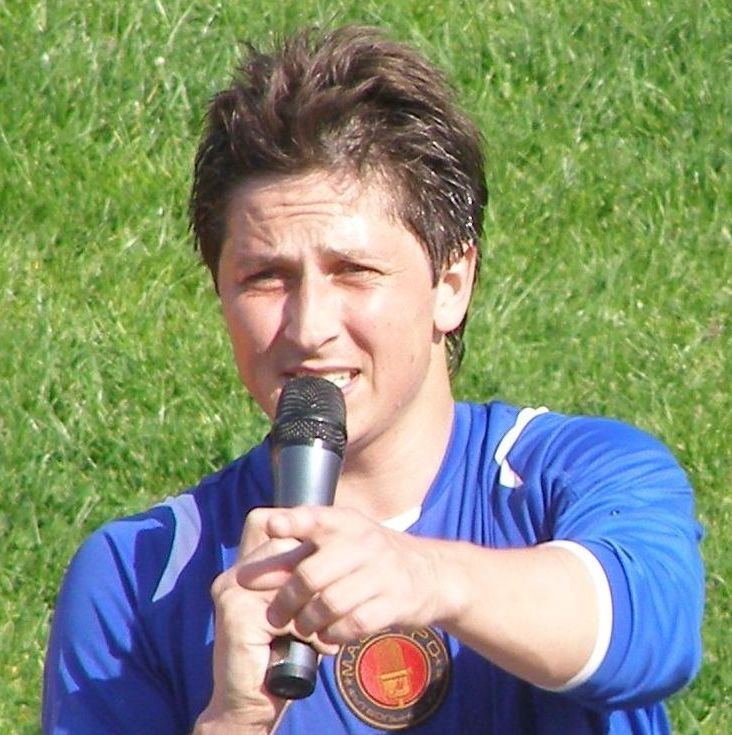 Oleksandr Pedan - Ukrainian showman and television presenter